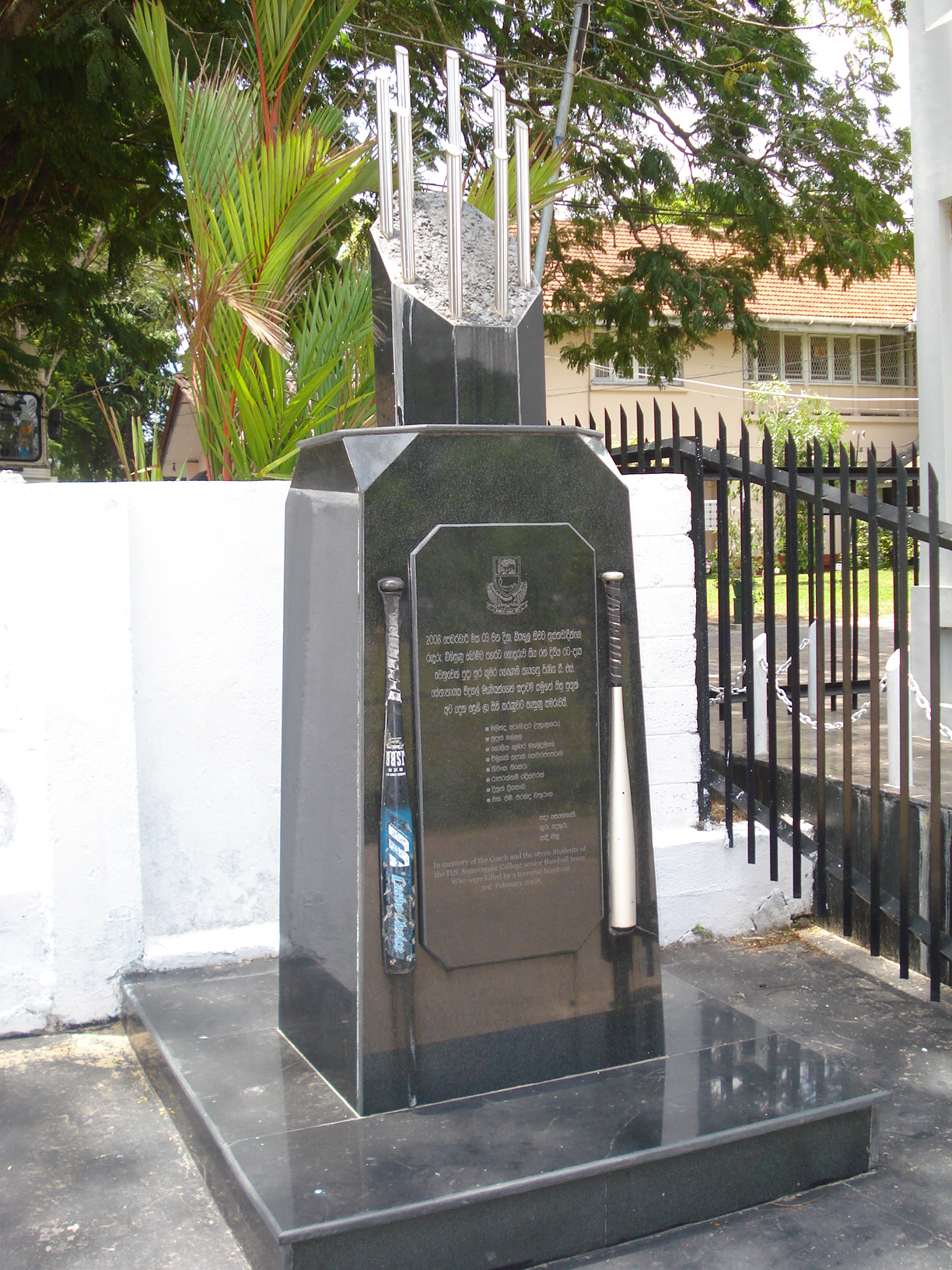 Terrorist attack memorial at DSSC, for the 7 students that were killed by LTTE